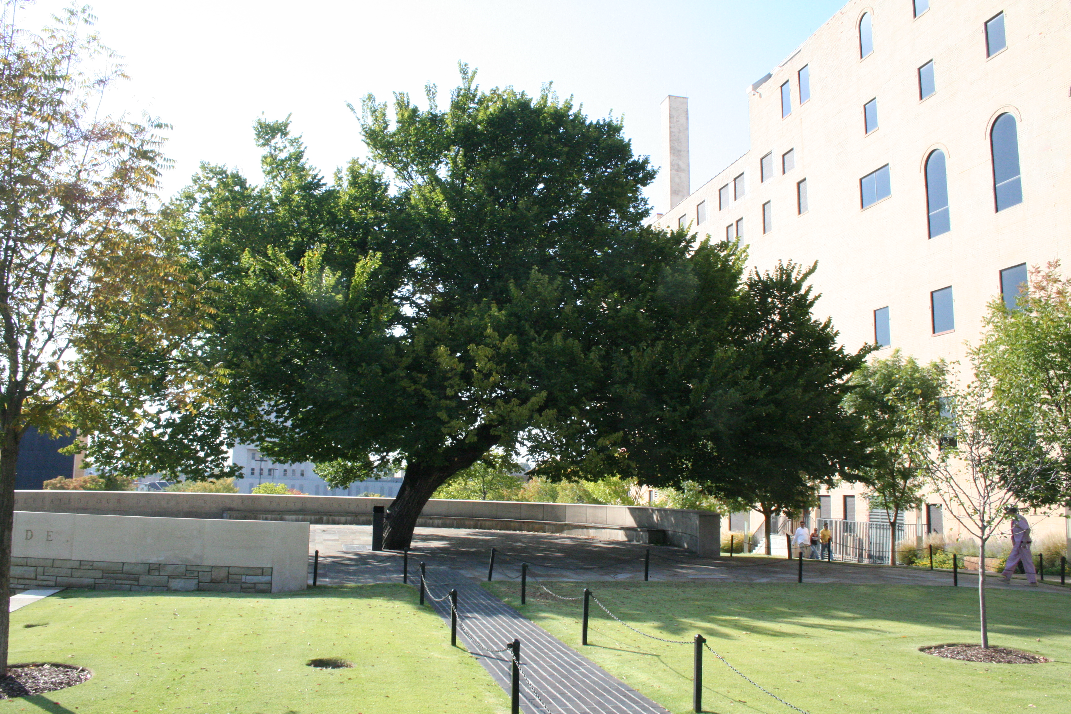 Views in and around the Oklahoma City National Memorial. The Survivor Tree